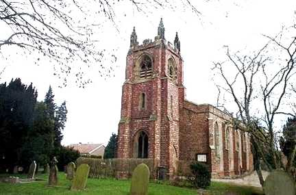 Church of St John The Baptist, Leeming, North Yorkshire